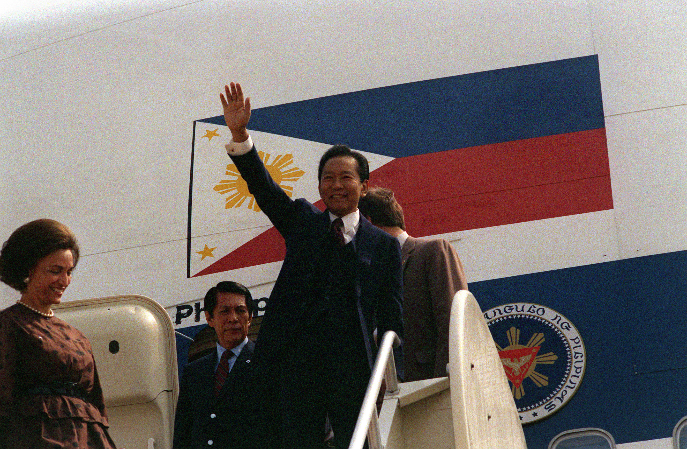 President Ferdinand E. Marcos of the Philippines pauses to wave to the people waiting to welcome him as he deplanes from a PAL 747 for a visit to Washington D.C.